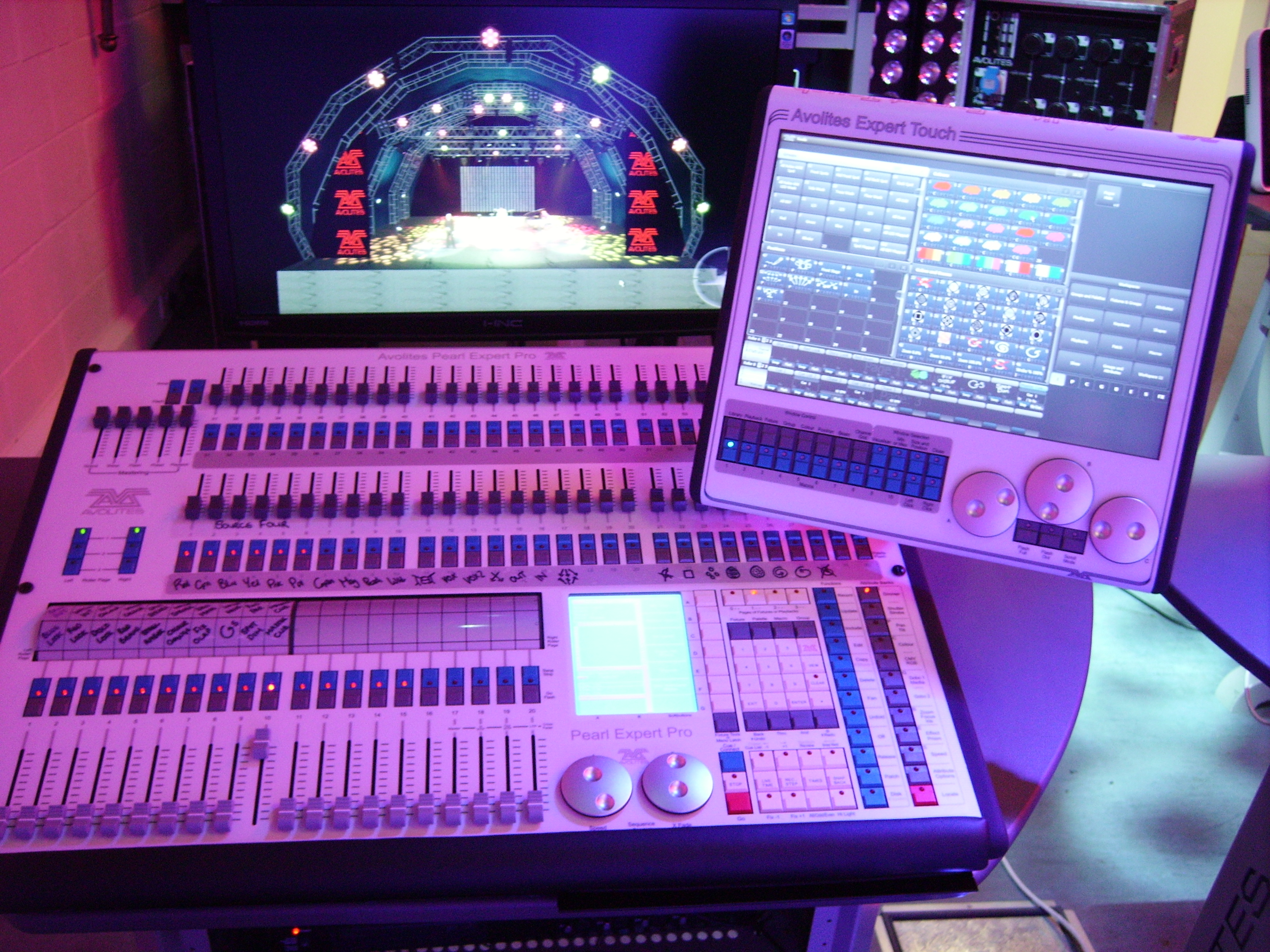 Picture of an Avolites Pearl Expert lighting control console with additional touch wing screen.